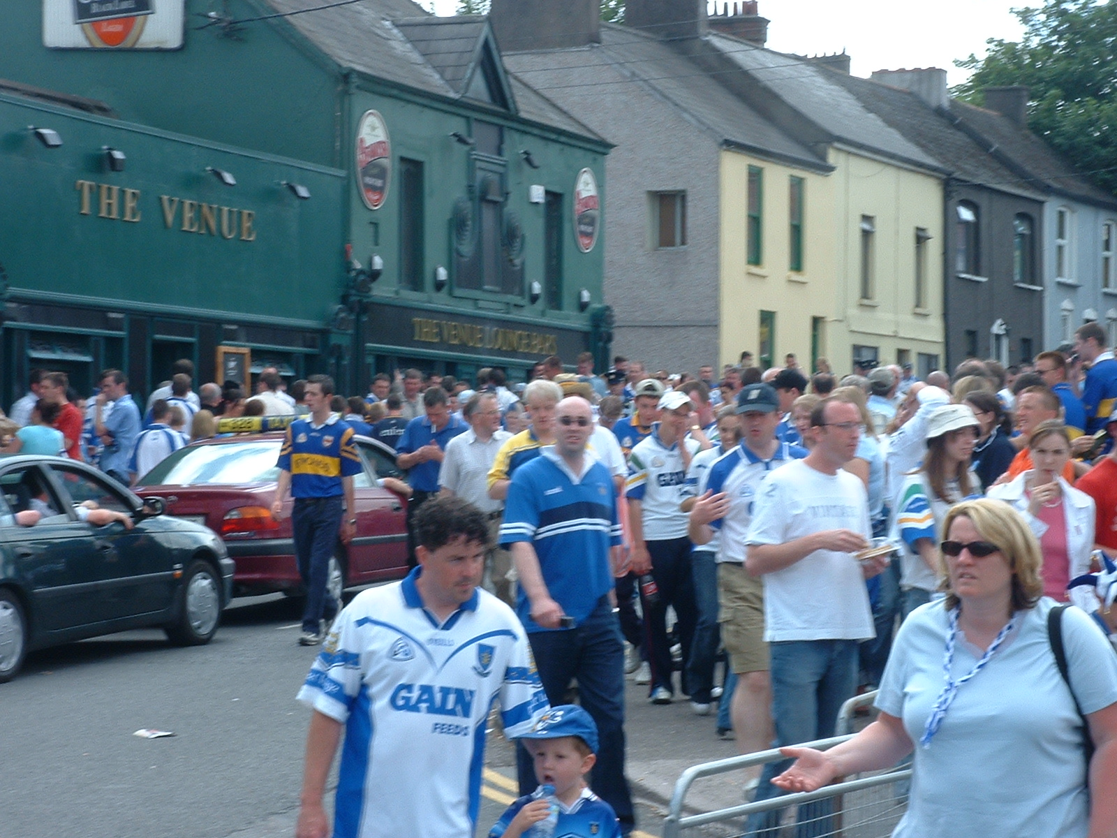 before a GAA match in Ballintemple, Cork